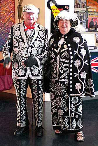 I took this picture